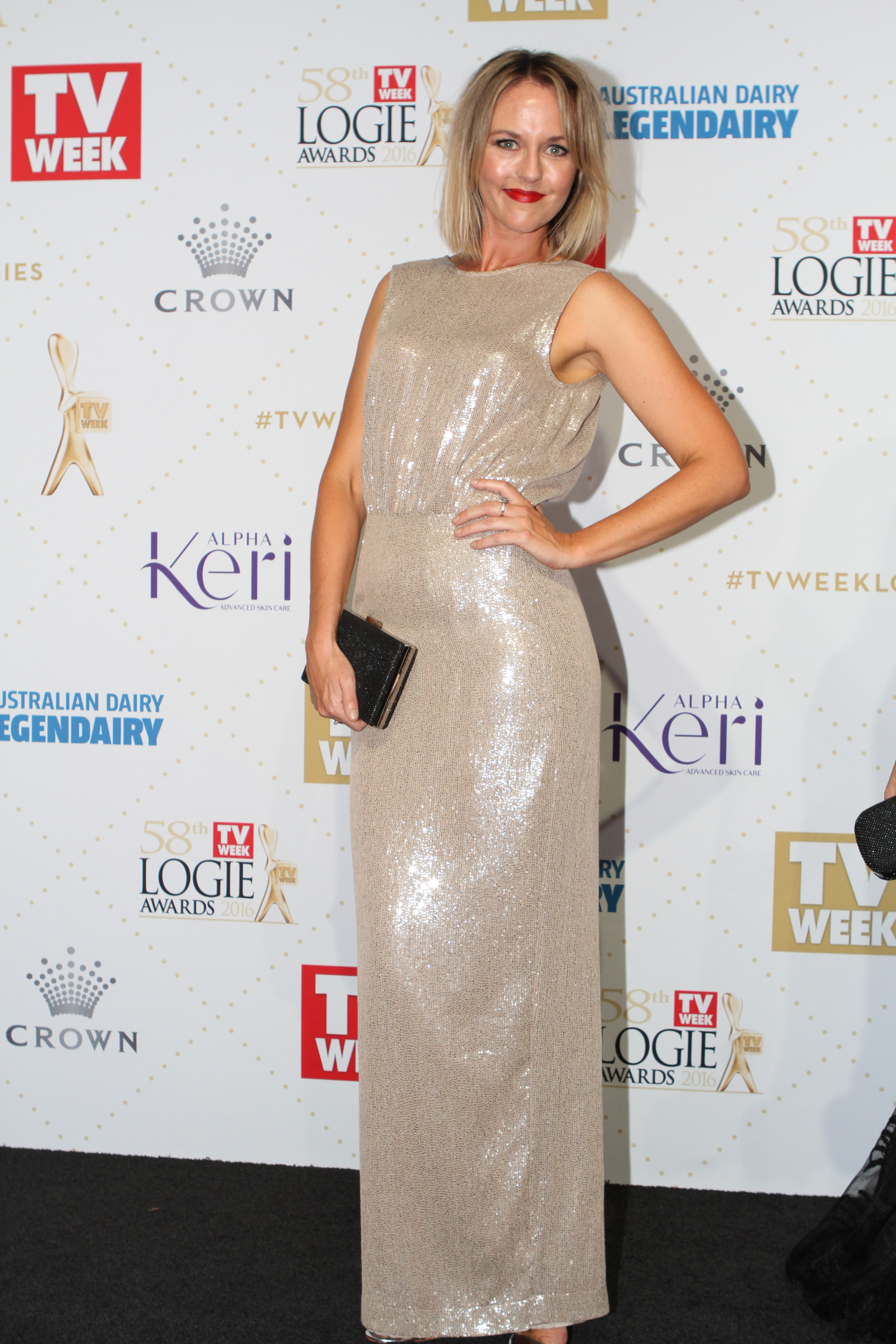 Michelle Langstone arrives at the 58th Annual Logie Awards at Crown Palladium on May 8, 2016 in Melbourne, Australia.